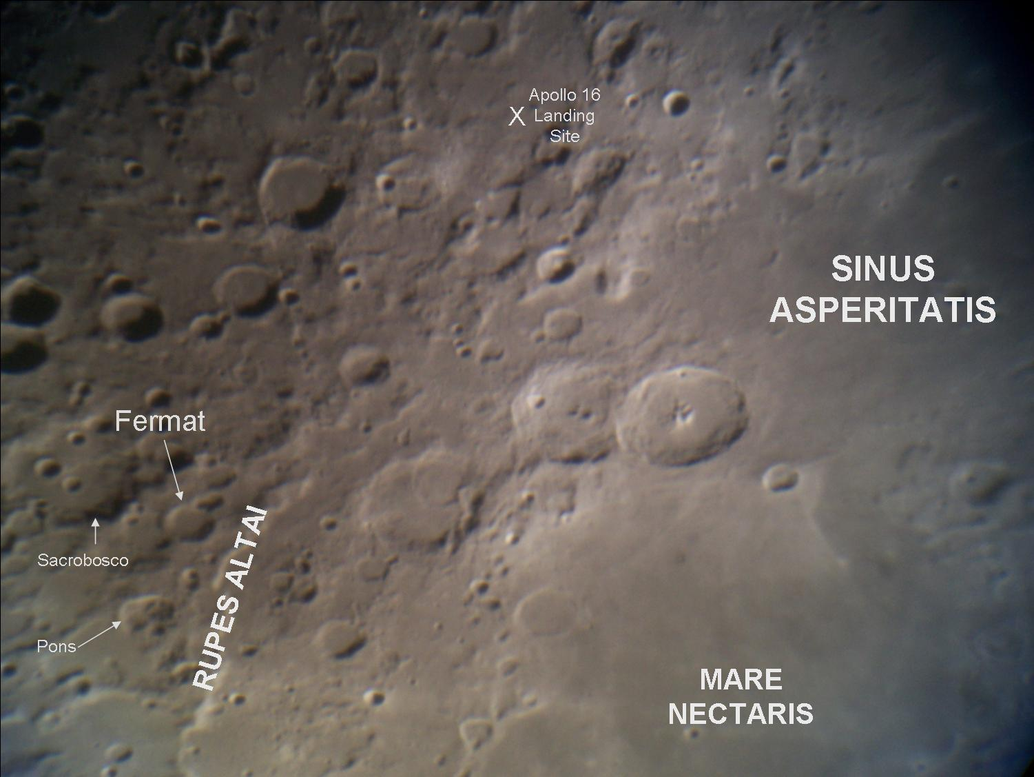 Photo by Eric S. Kounce - October 28, 2006 - Taken from the McDonald Observatory utilizing the 36" Telescope